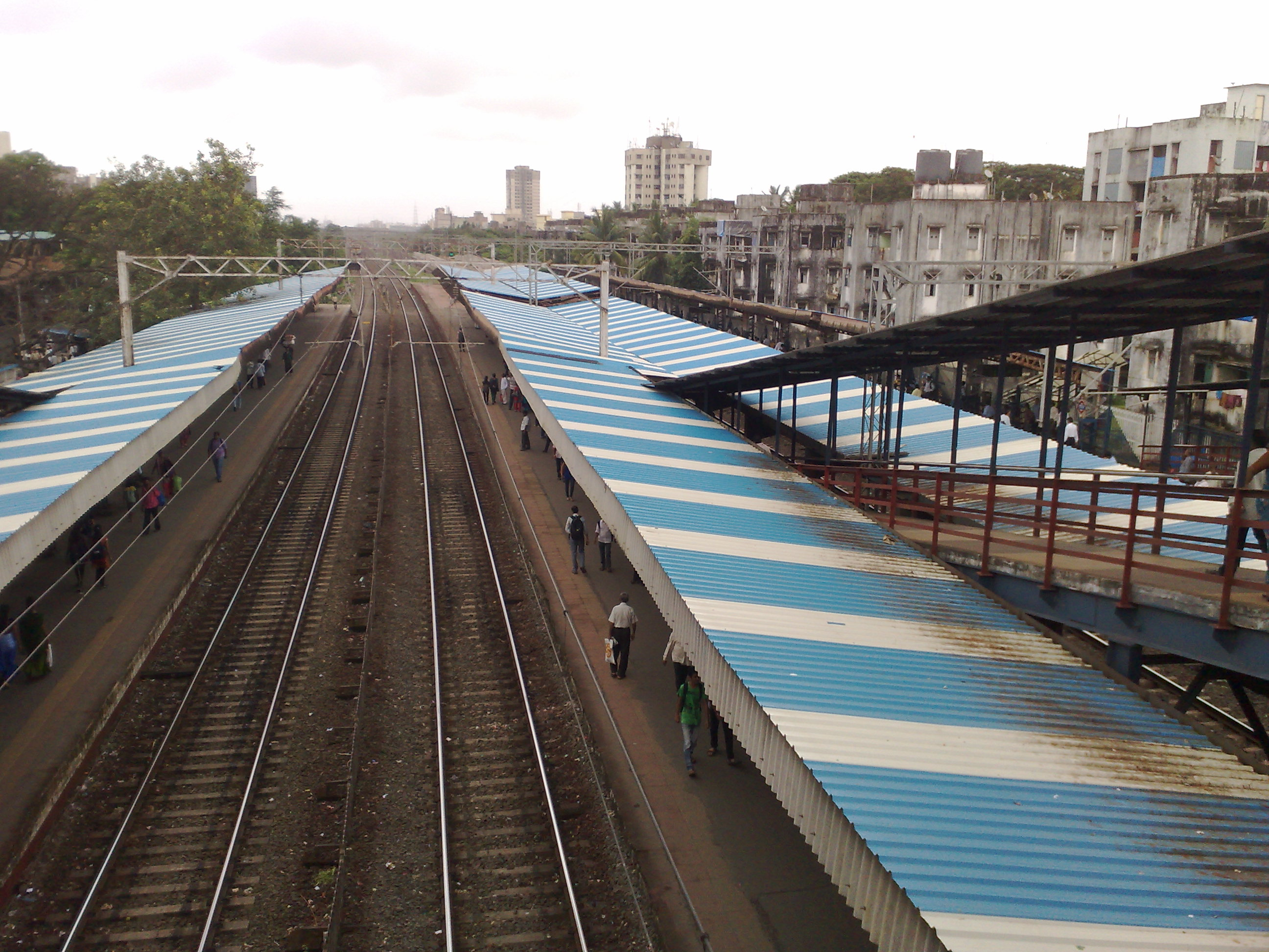 Dahisar railway station - Overview